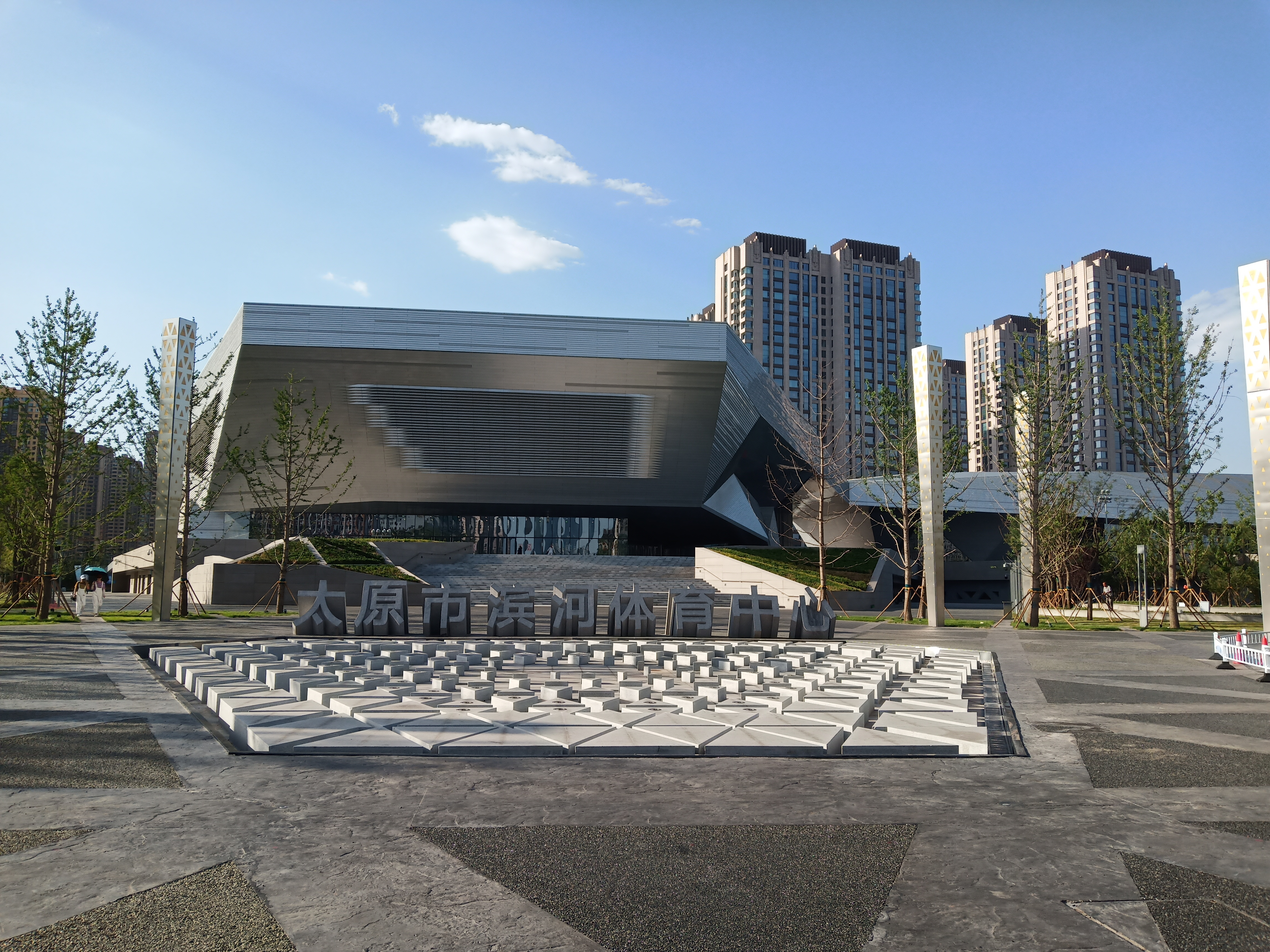 Riverside Sports Arena after reconstruction. Originally constructed in 1998, the arena had been reconstructed in preparation for the 2nd Youth Games of the People's Republic of China since 2017. It was completed in 2019. Table tennis and weightlifting will be held in the arena during the games.